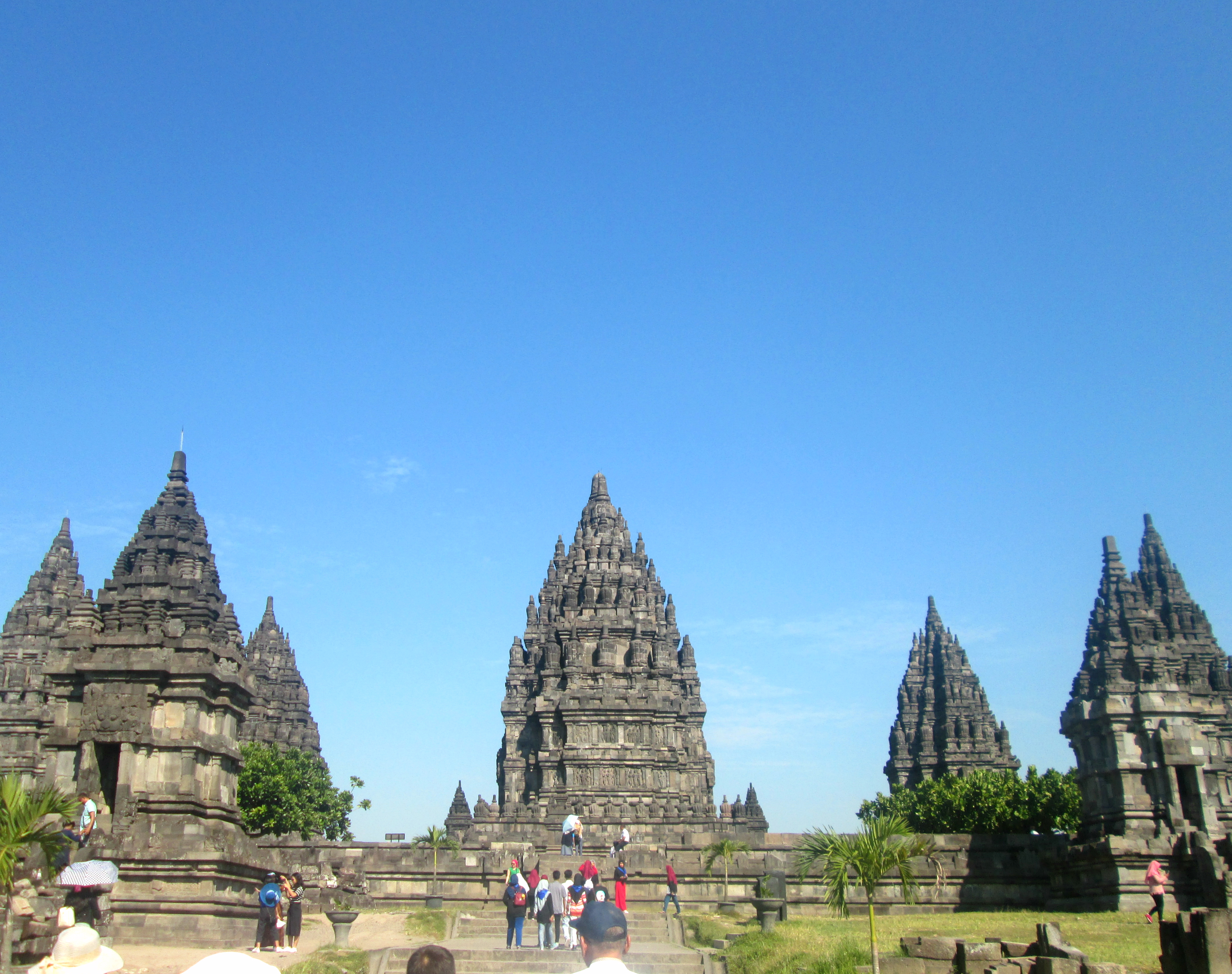 Prambanan Temple, located in Sleman Regency, Special Region of Yogyakarta.